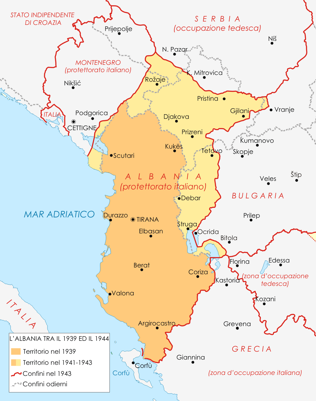 Map of Albania during WWII